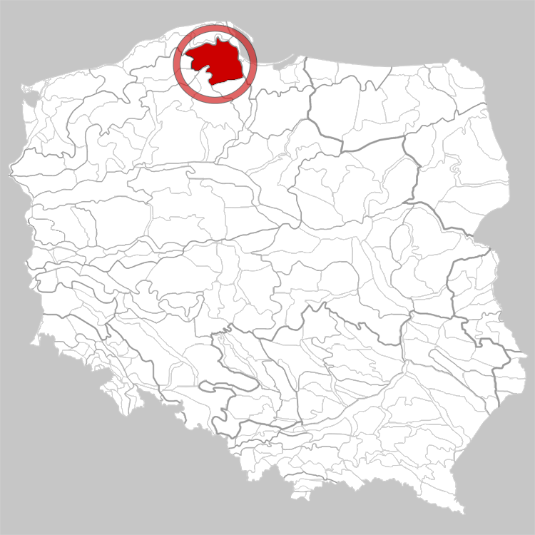 Physico-geographical regionalization of Poland Mezoregion 314.51 Kashubian Lakeland